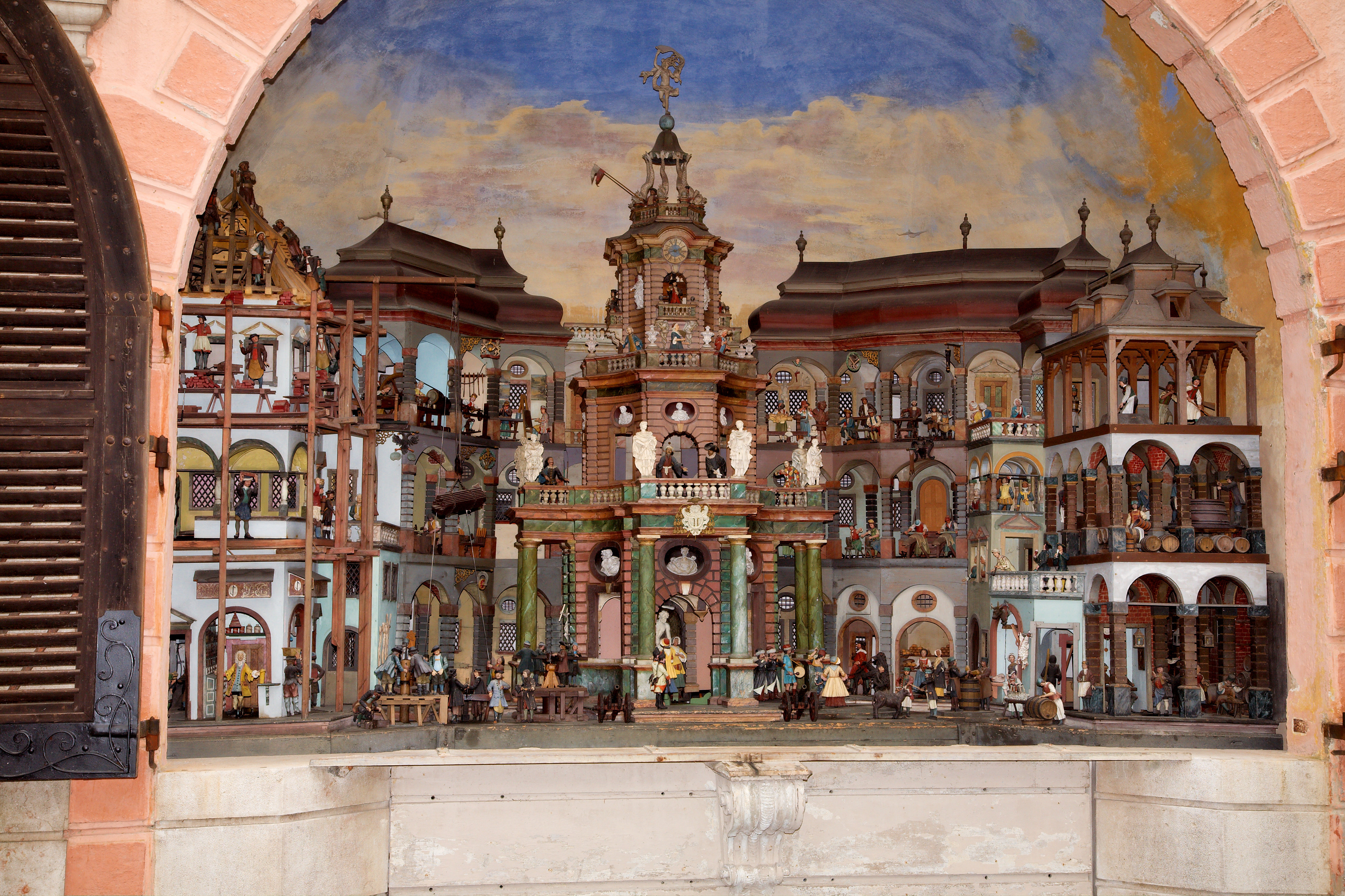 Austria, Salzburg, Hellbrunn Palace